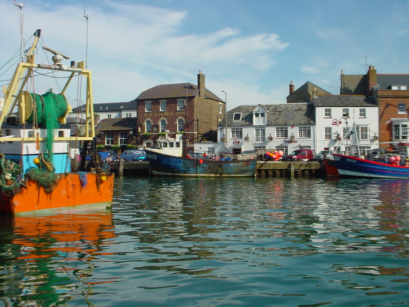 Weymouth Harbour Summer 2005, taken from the south side looking towards The George Inn. This was taken at about 9.41 on what proved to be a hot sunny day.